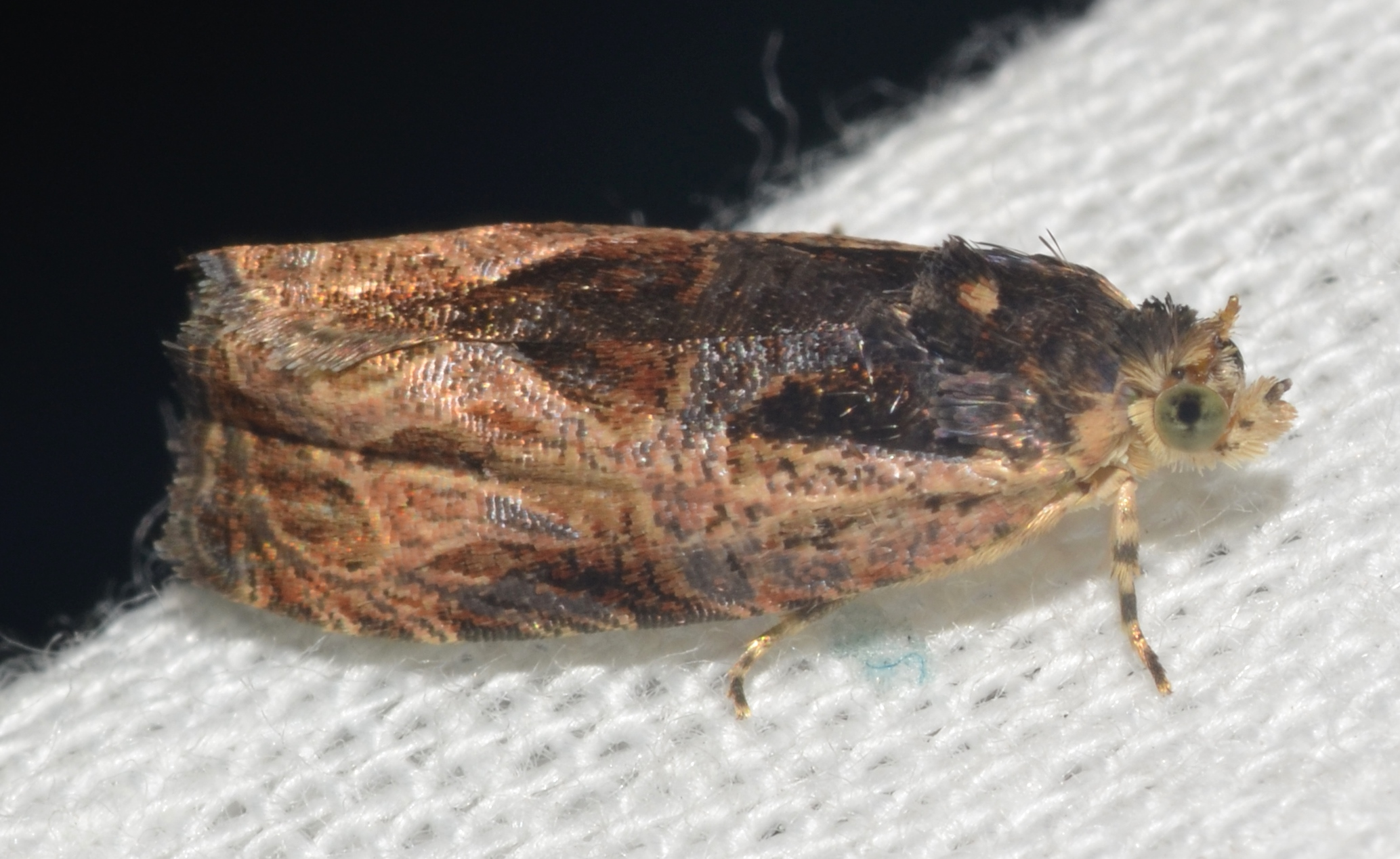 Cuivre River State Park 7/18/15 ID thanks to Michael Sabourin